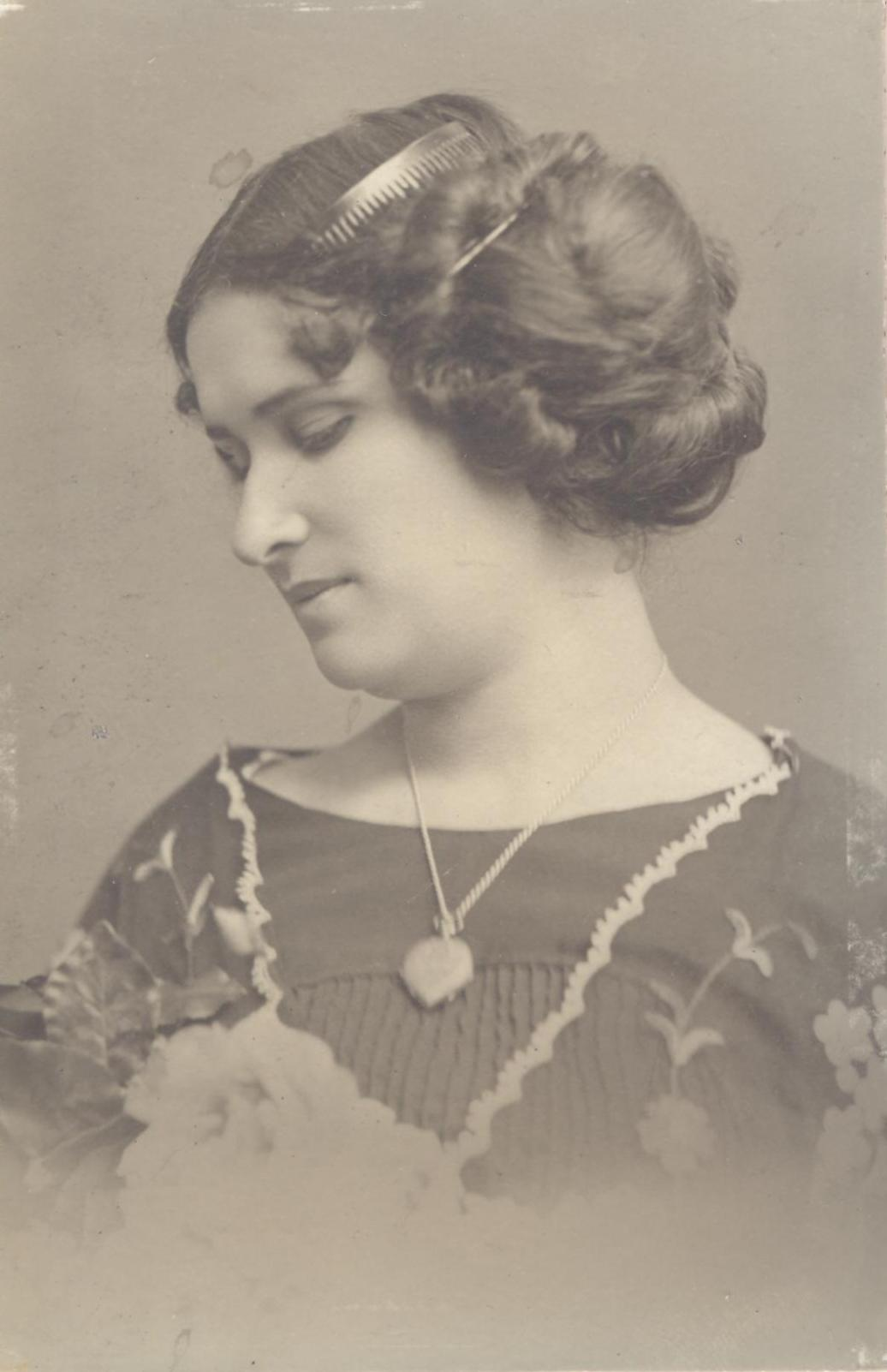 Kitsa Stoyanova.